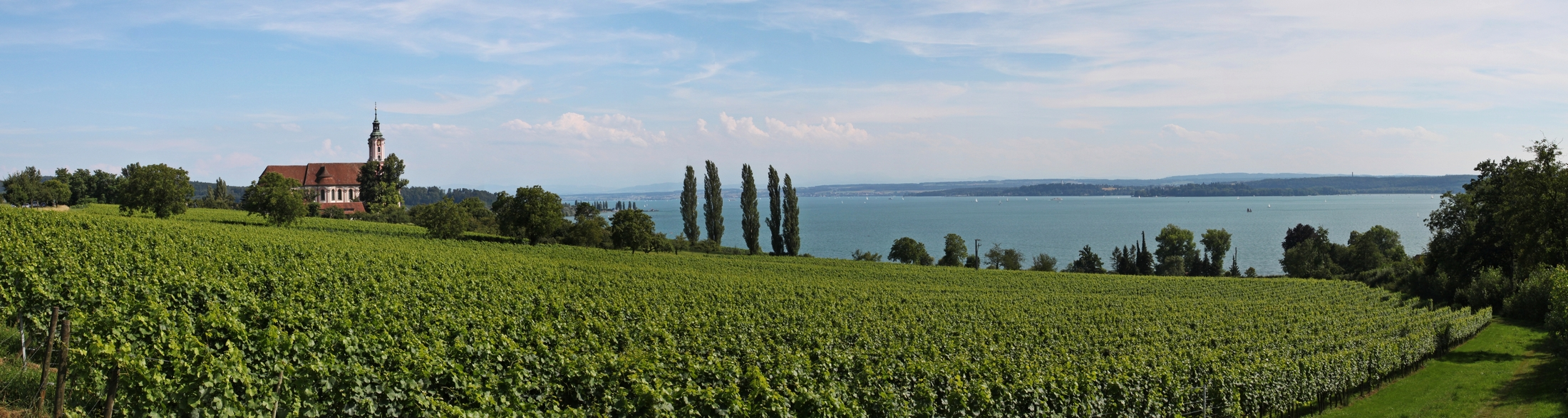 Birnau Pilgrimage Church with Lake Constance. Just northwest of Unteruhldingen the church is nestled among vineyards overlooking the lake. The church was built by the master architect Peter Thumb between 1746 and 1749.